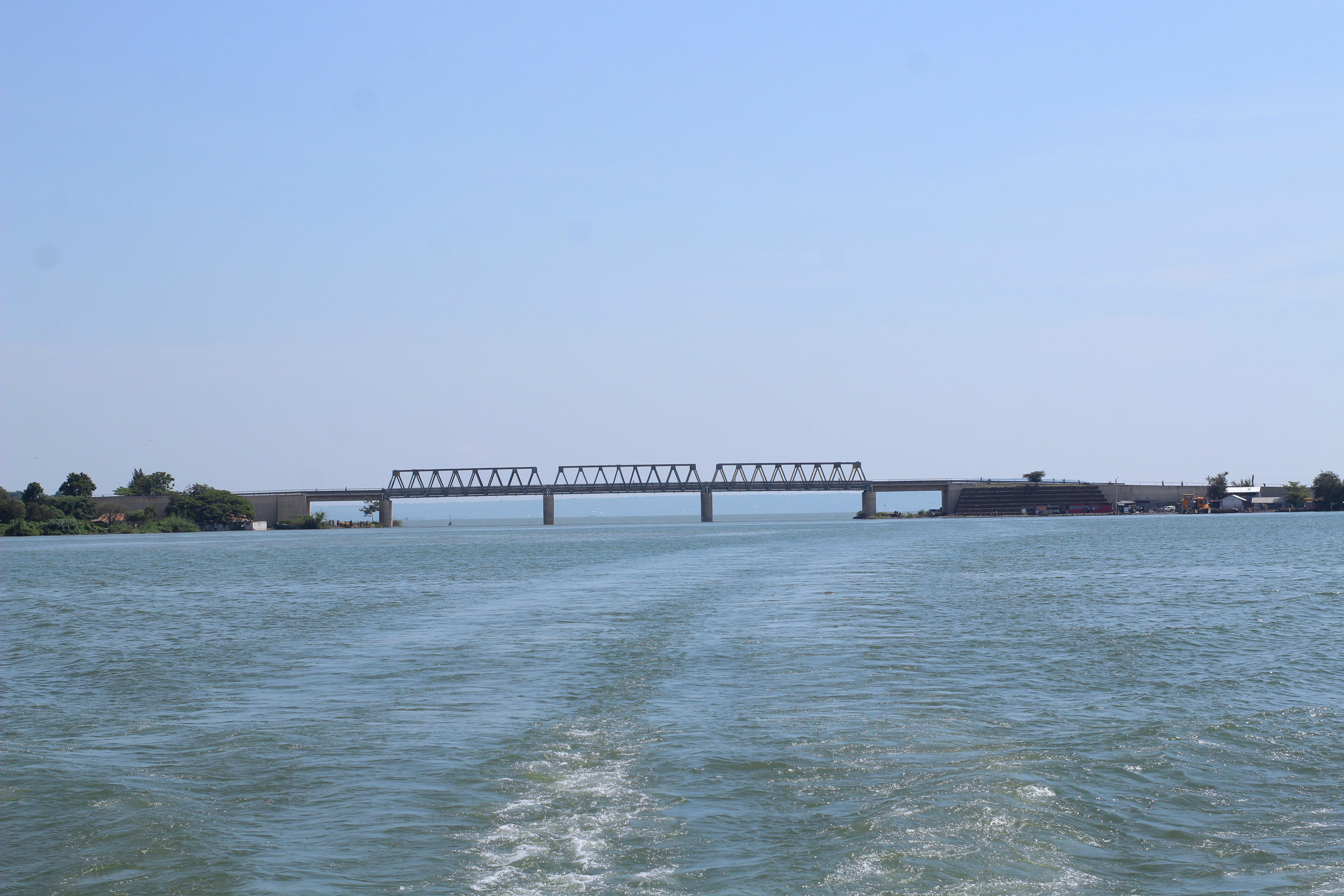 This picture show a bridge connecting Rusinga Island with mainland Mbita in Homabay county Kenya. The photo was taken aboard water bus This is an image with the theme "Africa on the Move or Transport" from: Kenya